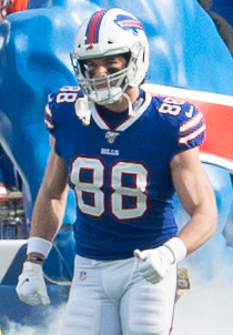 The Buffalo Bills take to the field before the start of the NFL's annual Salute to Service event before their game against the Denver Broncos, Orchard Park, N.Y., Nov. 24, 2019. Service members from all branches of the military were honored and unfurled an American flag over the field. (U.S. Air National Guard photo by Master Sgt. Brandy Fowler)